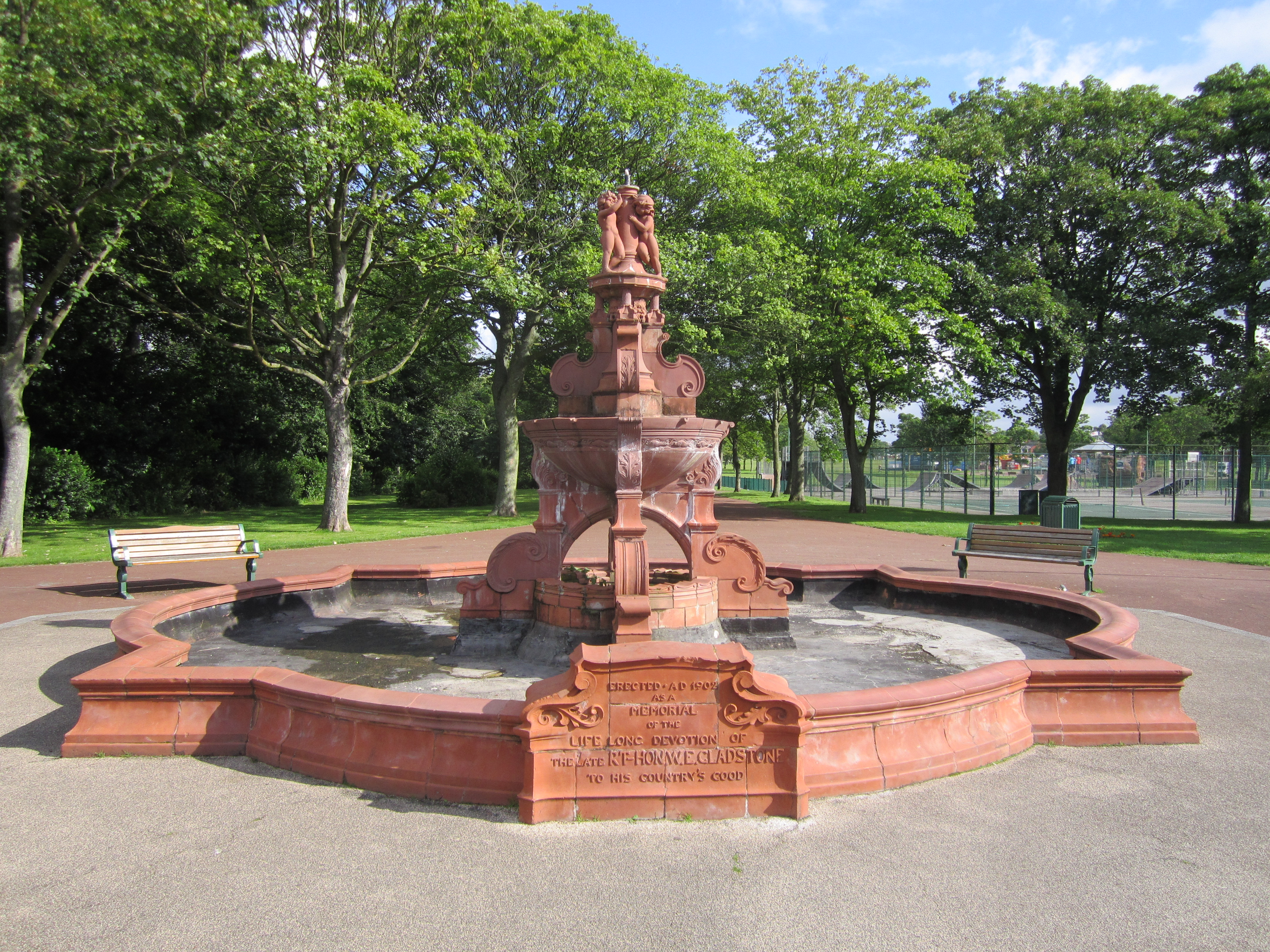 Photo taken at Victoria Park, Widnes, Cheshire, England.